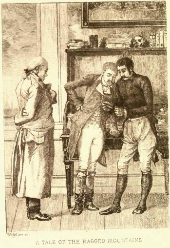 Illustration for Poe's A Tale of the Ragged Mountains in "Tales and poems - vol.2" (Philadelphia: G. Barrie, 18??) on the page to face p. 29